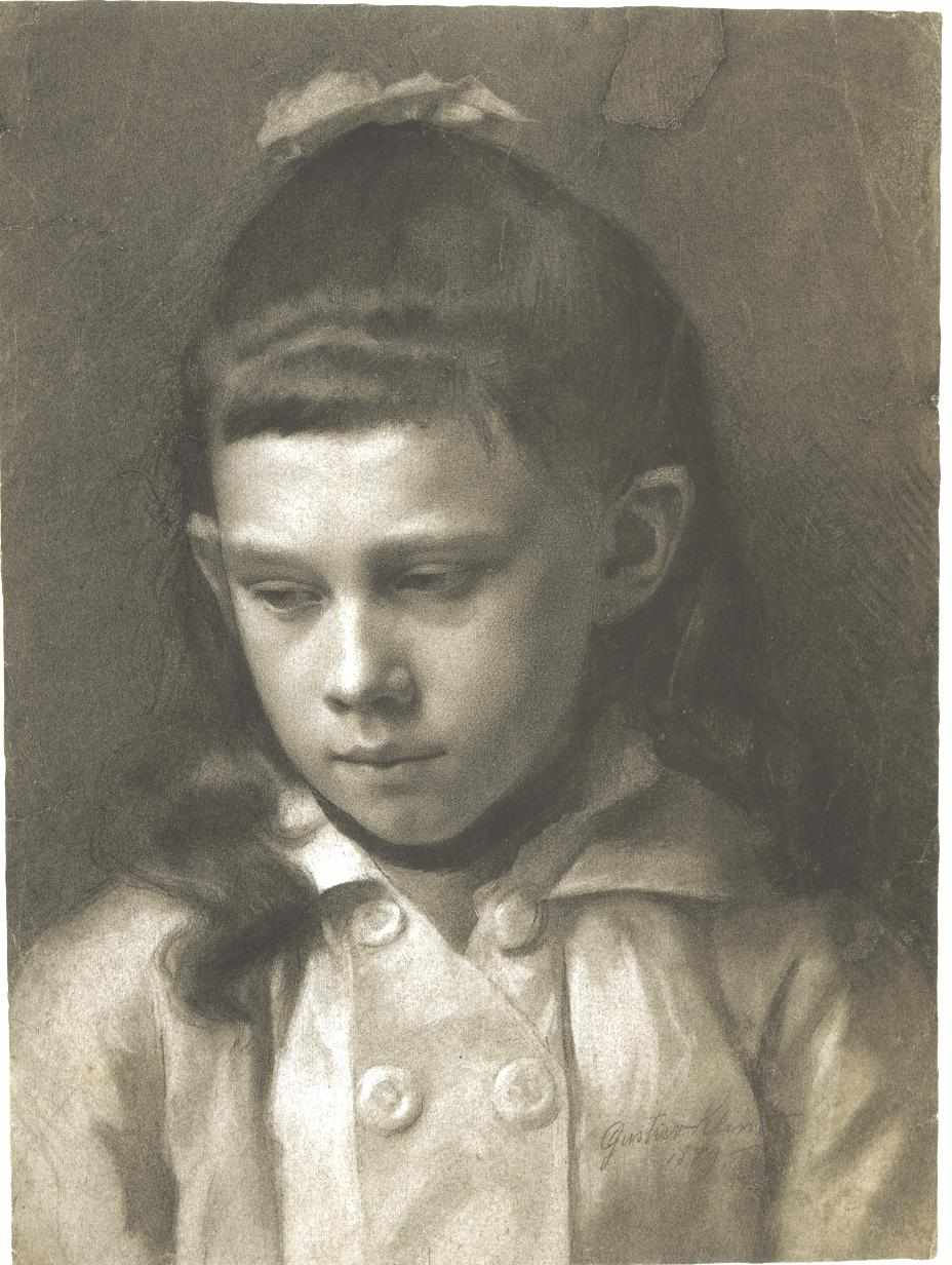 Portrait of a little girl